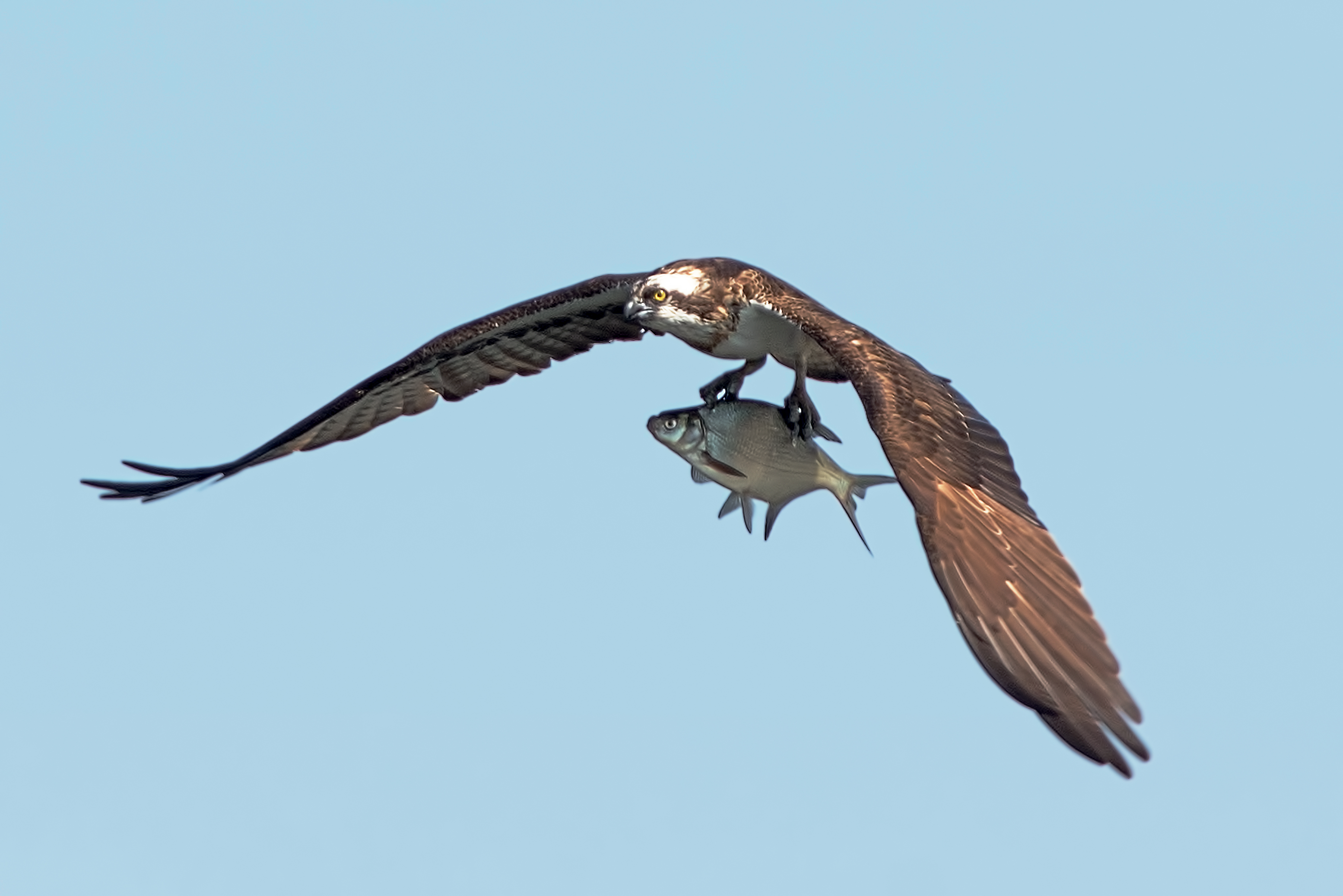 Osprey, Pandion haliaetus, with fish, Vaxholm, Stockholm, Sweden 2015